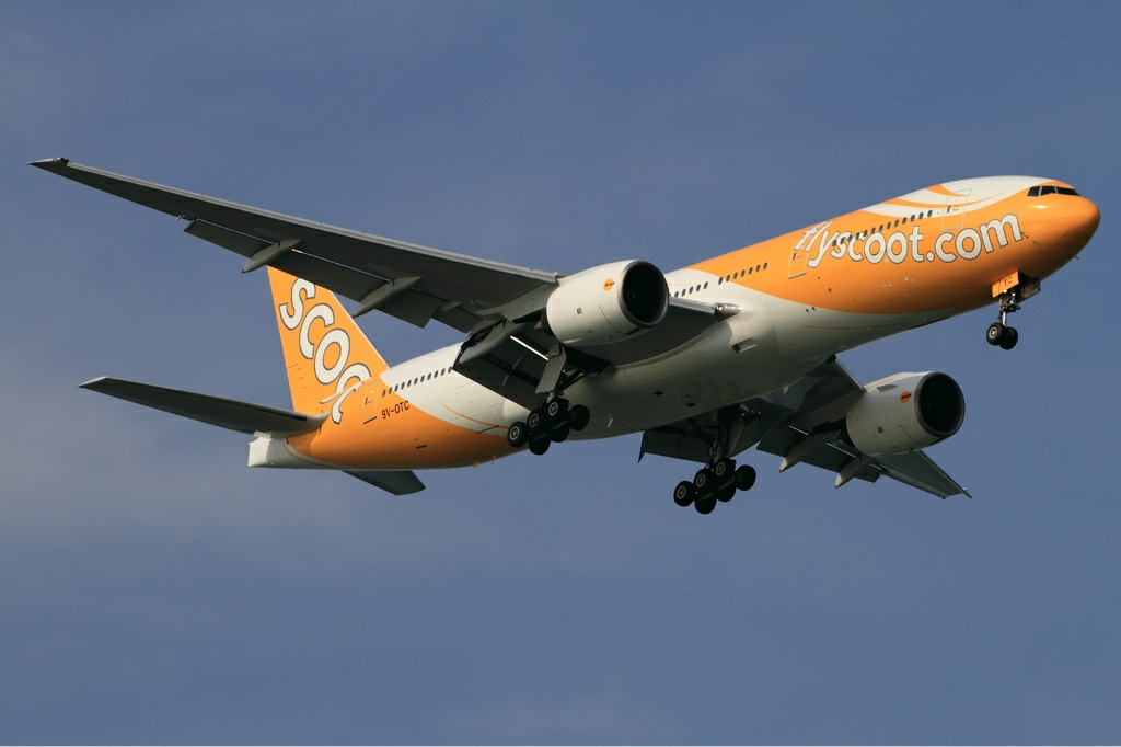 Scoot Boeing 777-212ER on finals at Singapore Changi Airport